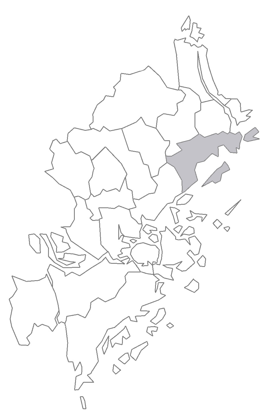 Map describing the location of Frötuna and Länna Ship District in Stockholm County, Sweden.